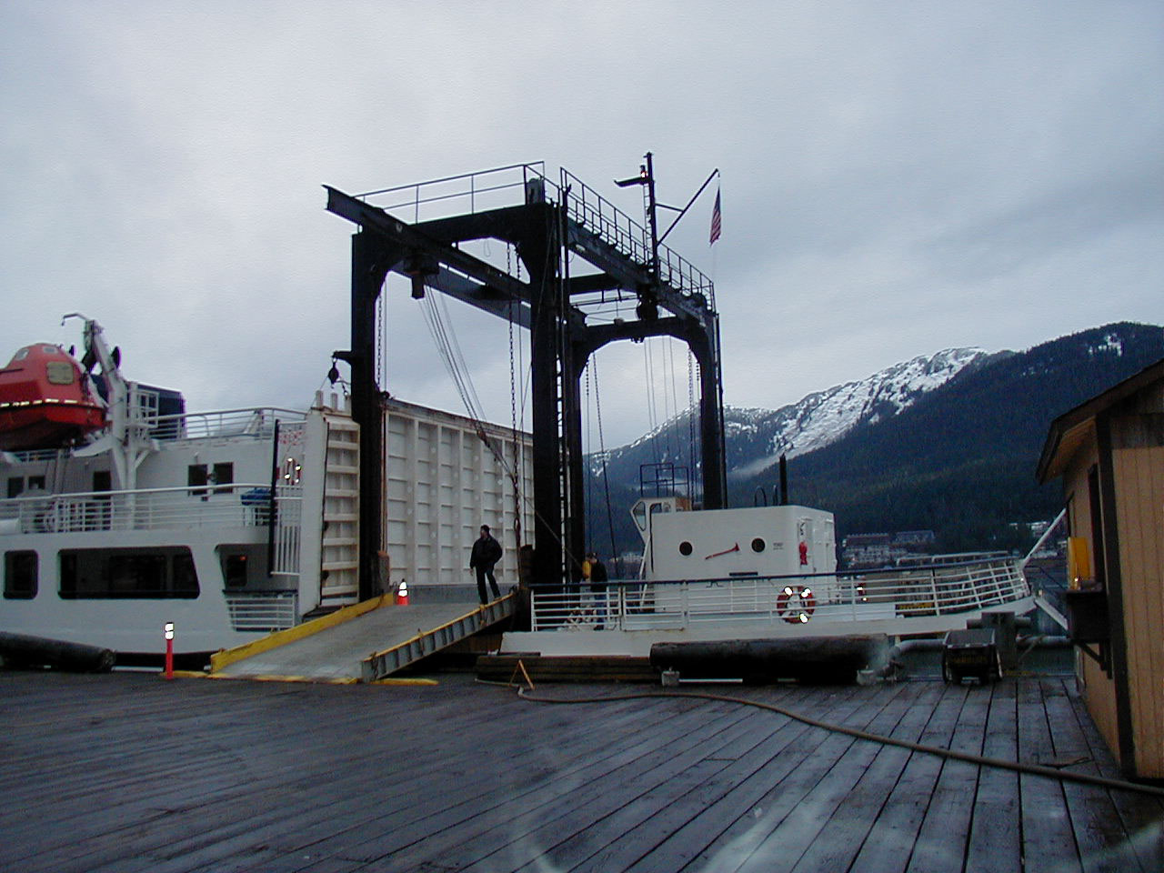 Alaska Marine Highway System ferry the m/v Tustemena - Southeast Alaska.